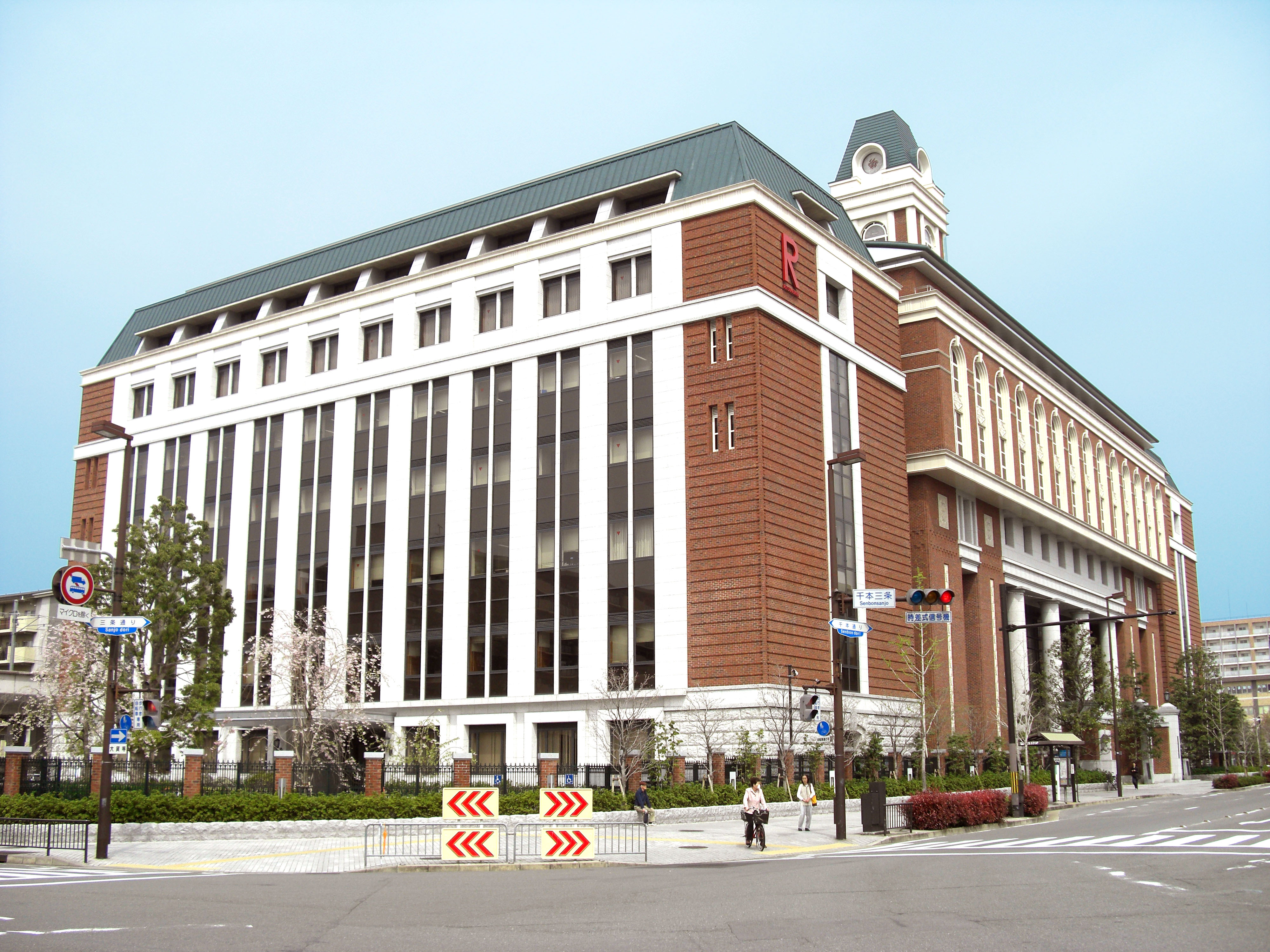 Ritsumeikan Suzaku Campus,1 Nishinokyo-Suzaku-cho Nakagyo-ku Kyoto-City Kyoto JAPAN.